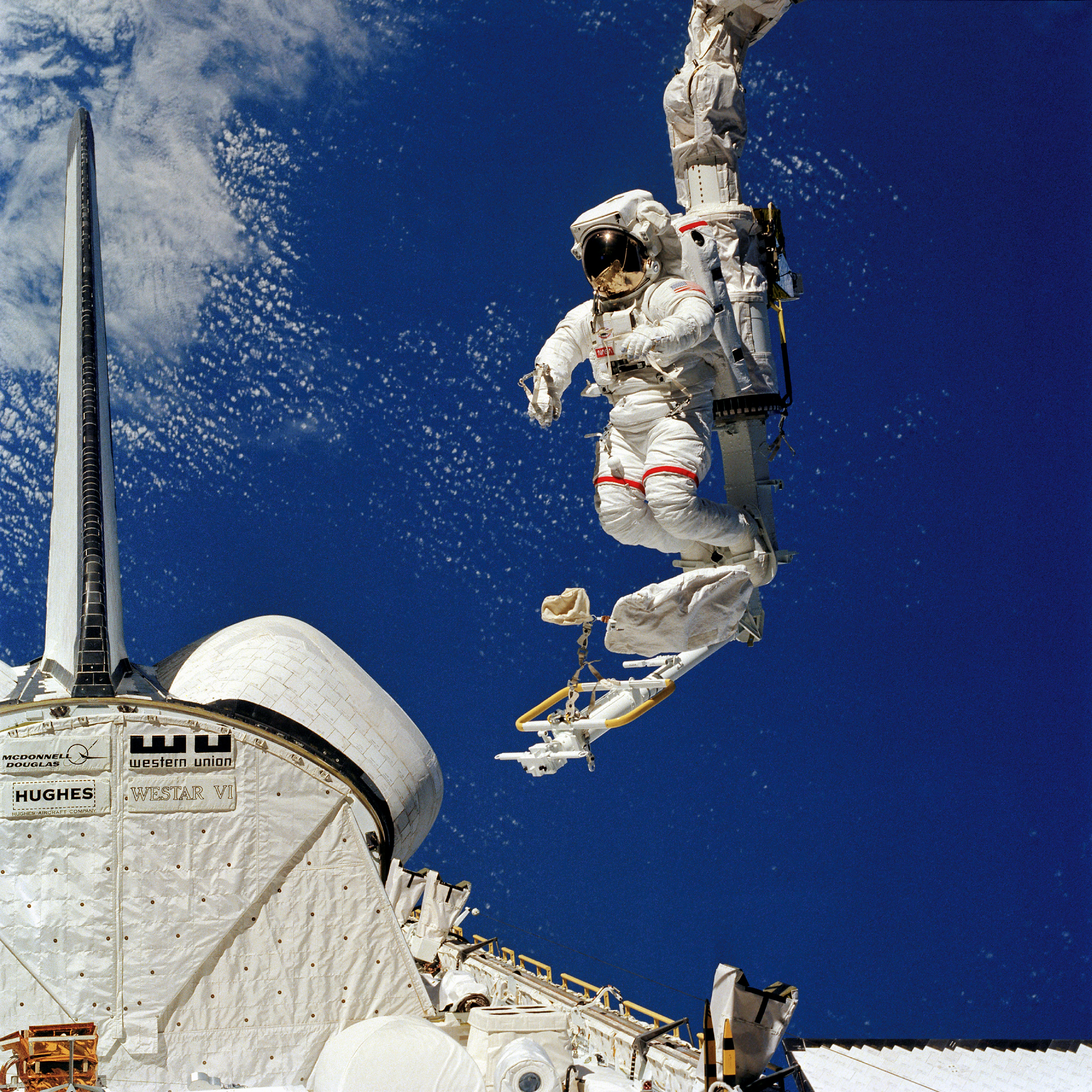 S84-27040 -- On Space Shuttle mission STS-41B, Feb. 1984, the Canadarm was used as a platform for spacewalk work by astronauts Bruce McCandless II (pictured) and Robert L. Stewart.